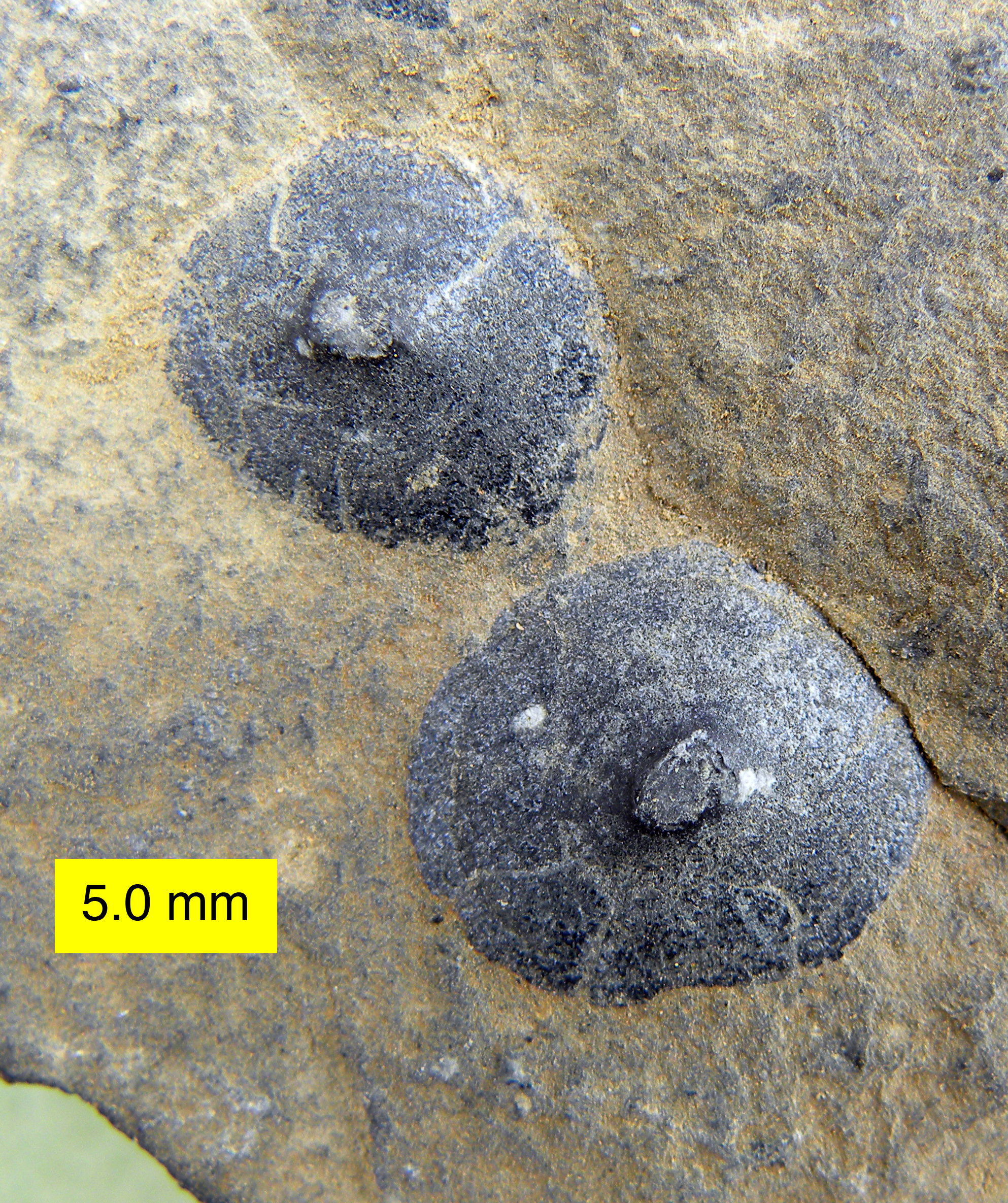 Scenella in the Burgess Shale, Middle Cambrian, near Field, British Columbia, Canada.